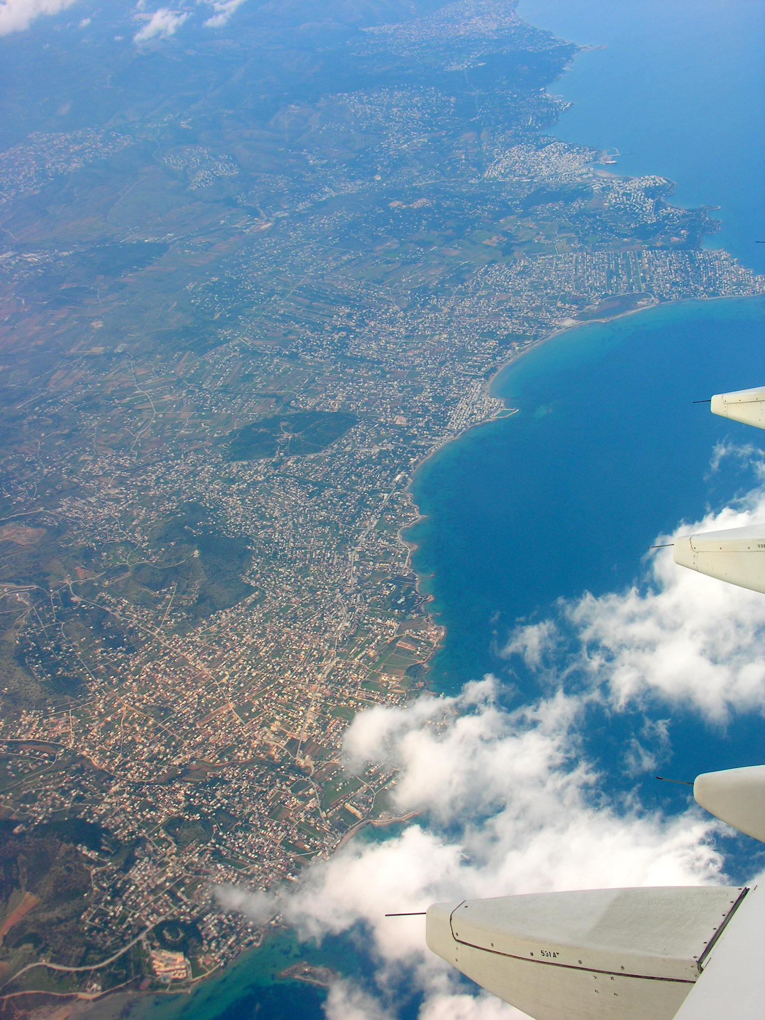 Aerial view of Loutsa